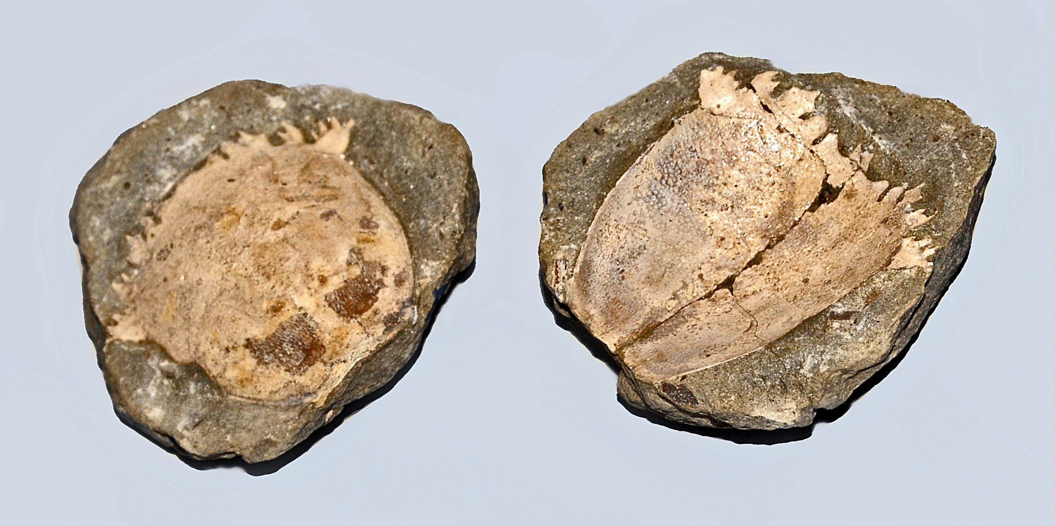 Crop of file in filename